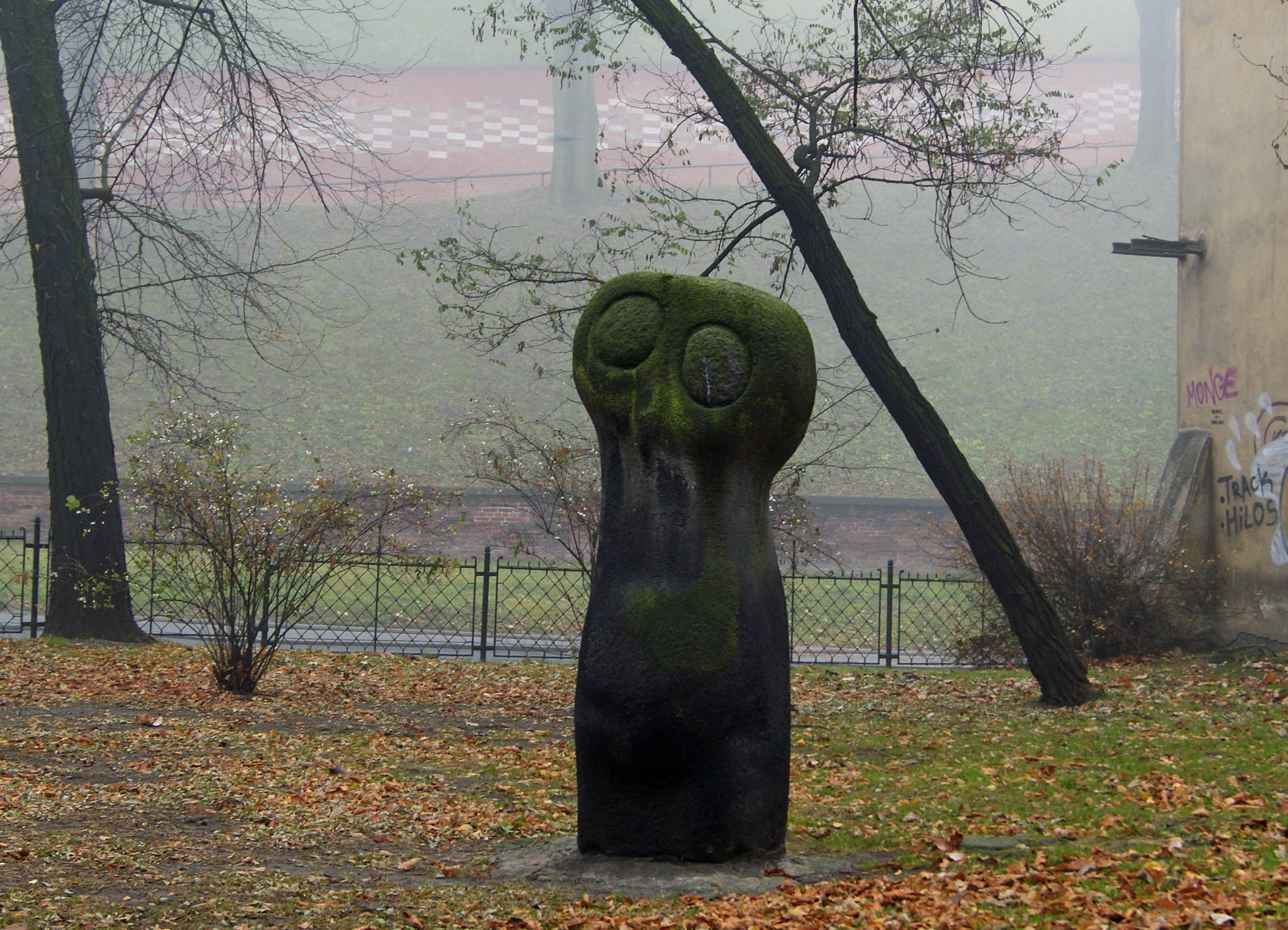 Owls (1961 by sculptor Bronislaw Chromy), Planty Park, Old Town, Krakow, Poland